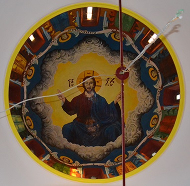 Srpska Kuca Church Fresco